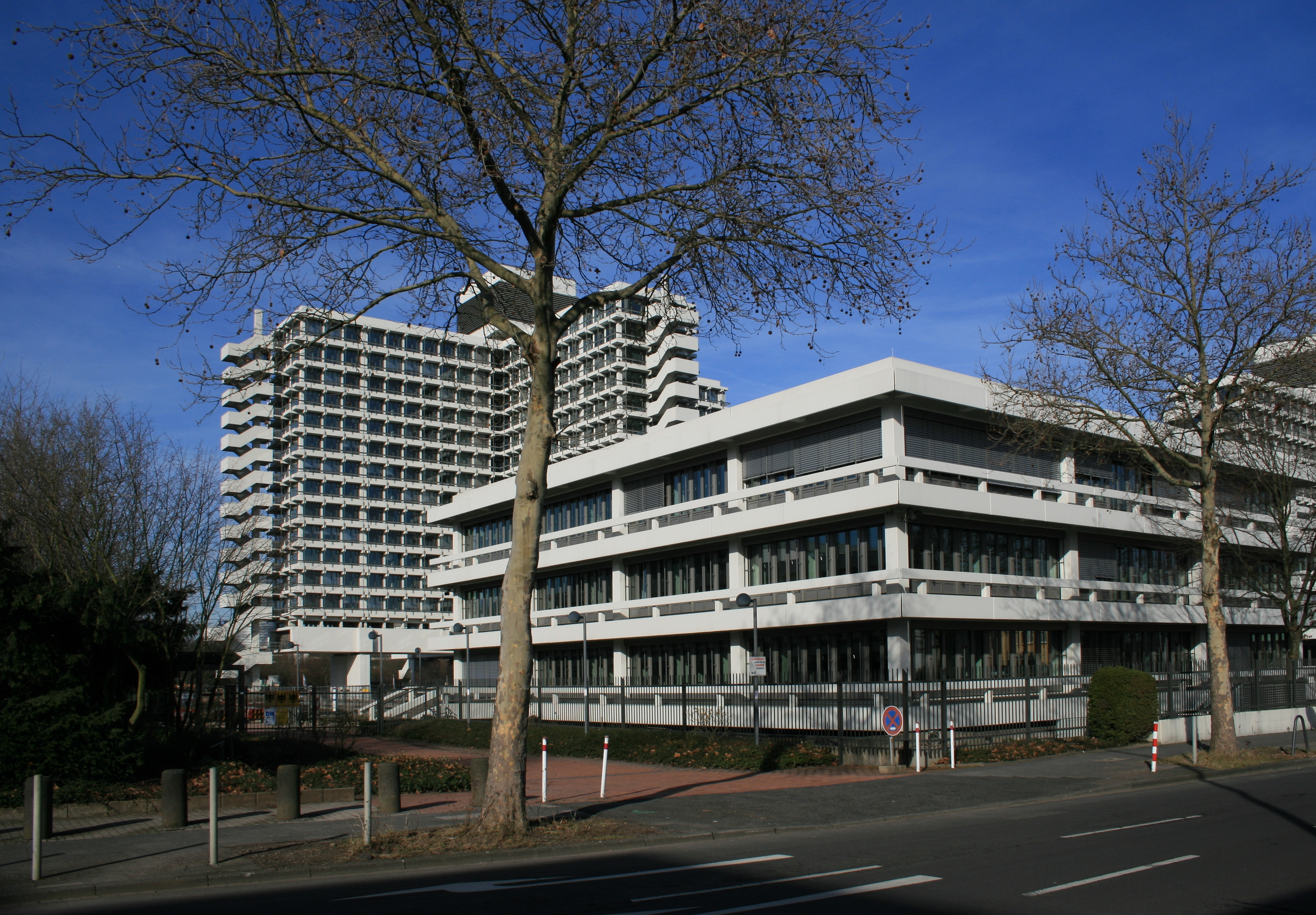 Bonn/Germany; Streitkräfteamt („Armed Forces Office„) Headquarter (Heinemannstraße 6, 53175 Bonn)